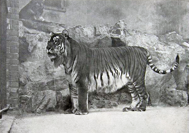 Caspian tiger (Panthera tigris virgata), a.k.a. Persian tiger (Berlin Zoo, 1899, from the Caucasus)[1] The Caspian Tiger (or Persian tiger) (Panthera tigris virgata) was found in Iran, Afghanistan, Turkey, Mongolia, and the Central Asiatic area of Russia. This subspecies of tigers, one of the largest in size, may have become extinct by 1999.